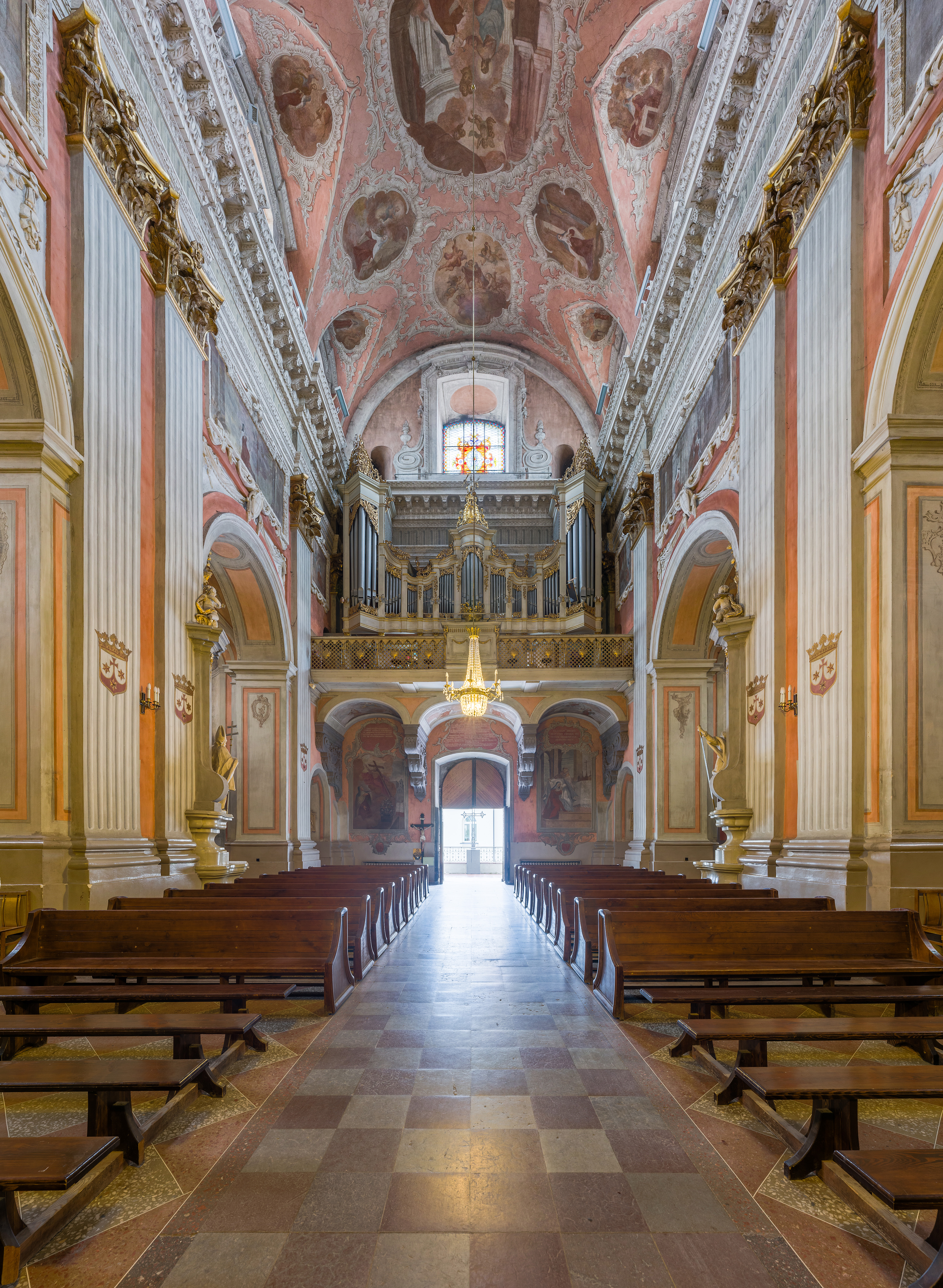 The church of St. Teresa, Vilnius, Lithuania